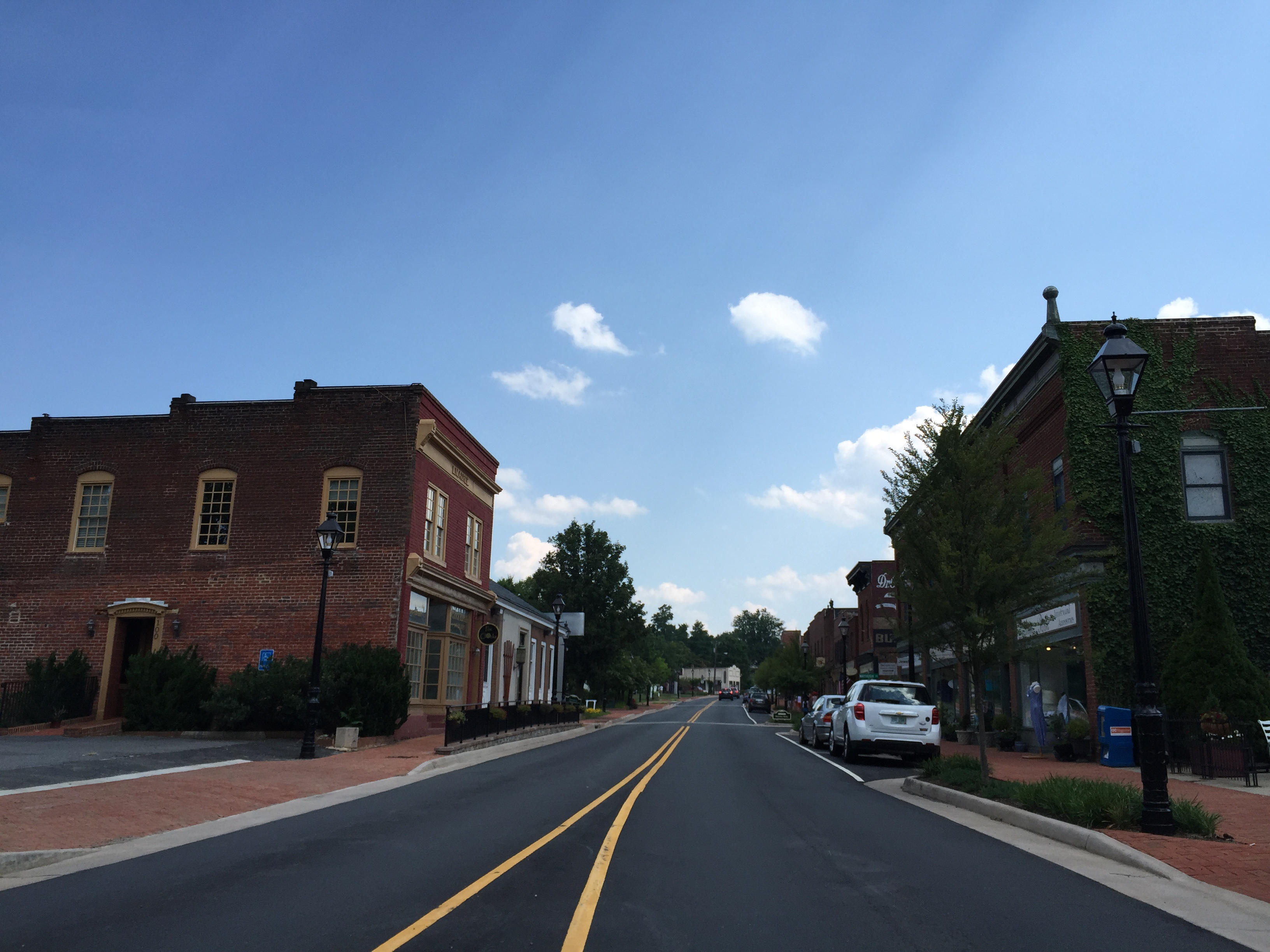 View south along U.S. Route 15 and east along U.S. Route 33 (Main Street) between Market Street and Mayhugh Street in Gordonsville, Orange County, Virginia